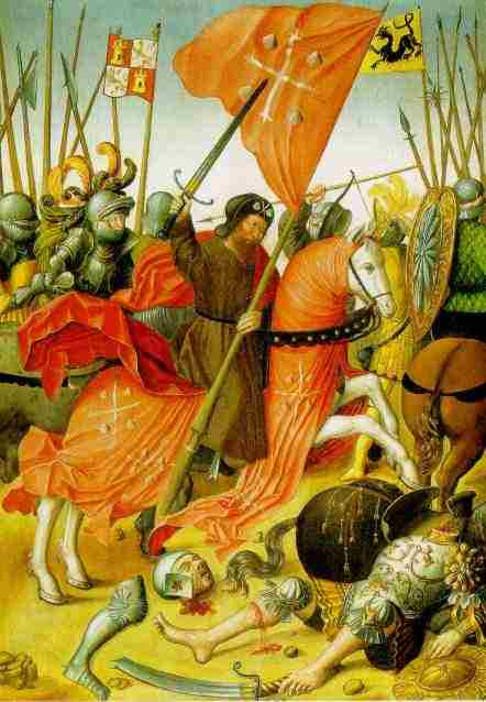 Saint James Moorslayer (detail)